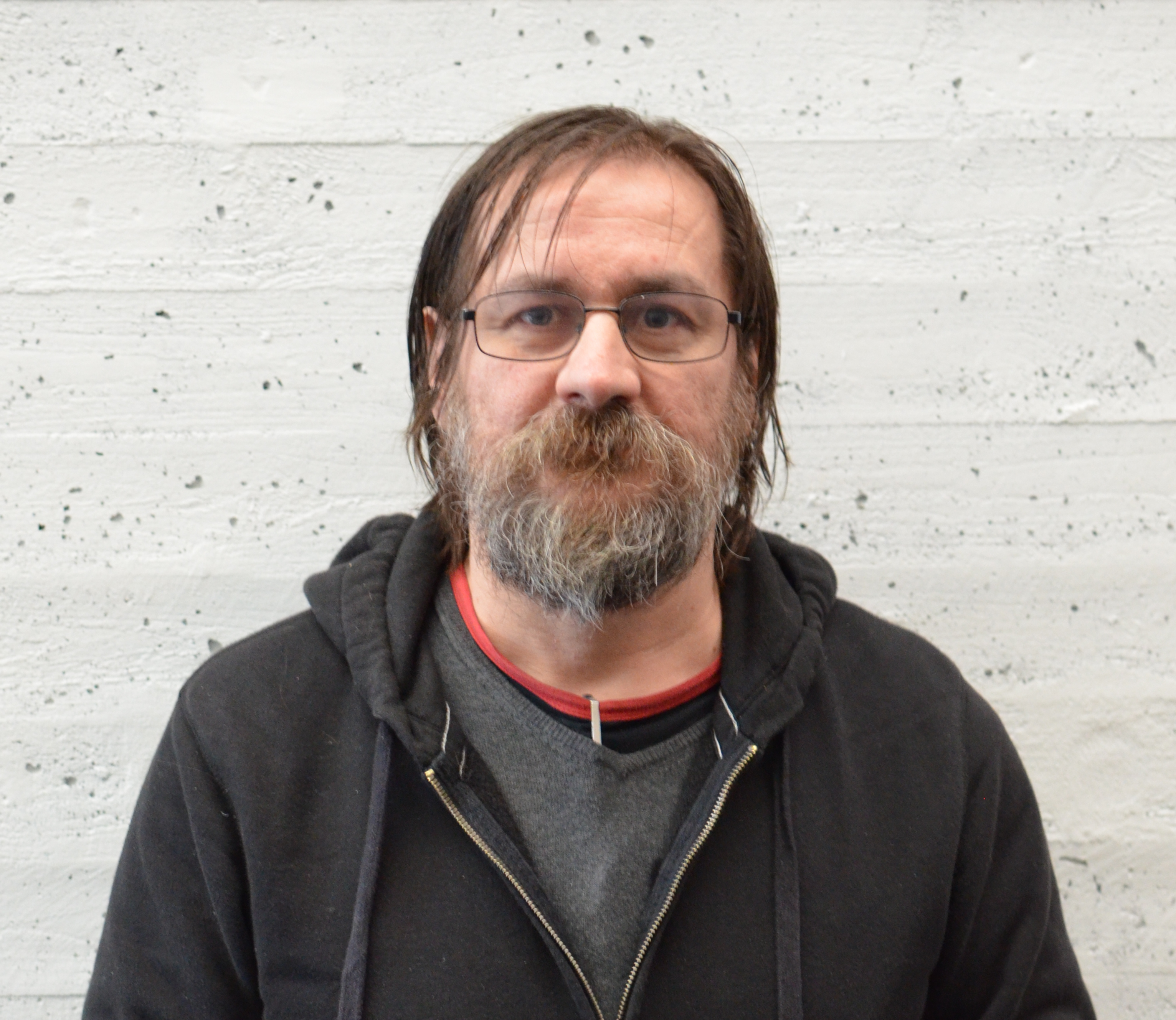 Dan Perjovschi standing in front of a white brick wall of Kiasma. This is cropped from File:Dan Perjovschi with coffee mug - Kiasma 2013.JPG